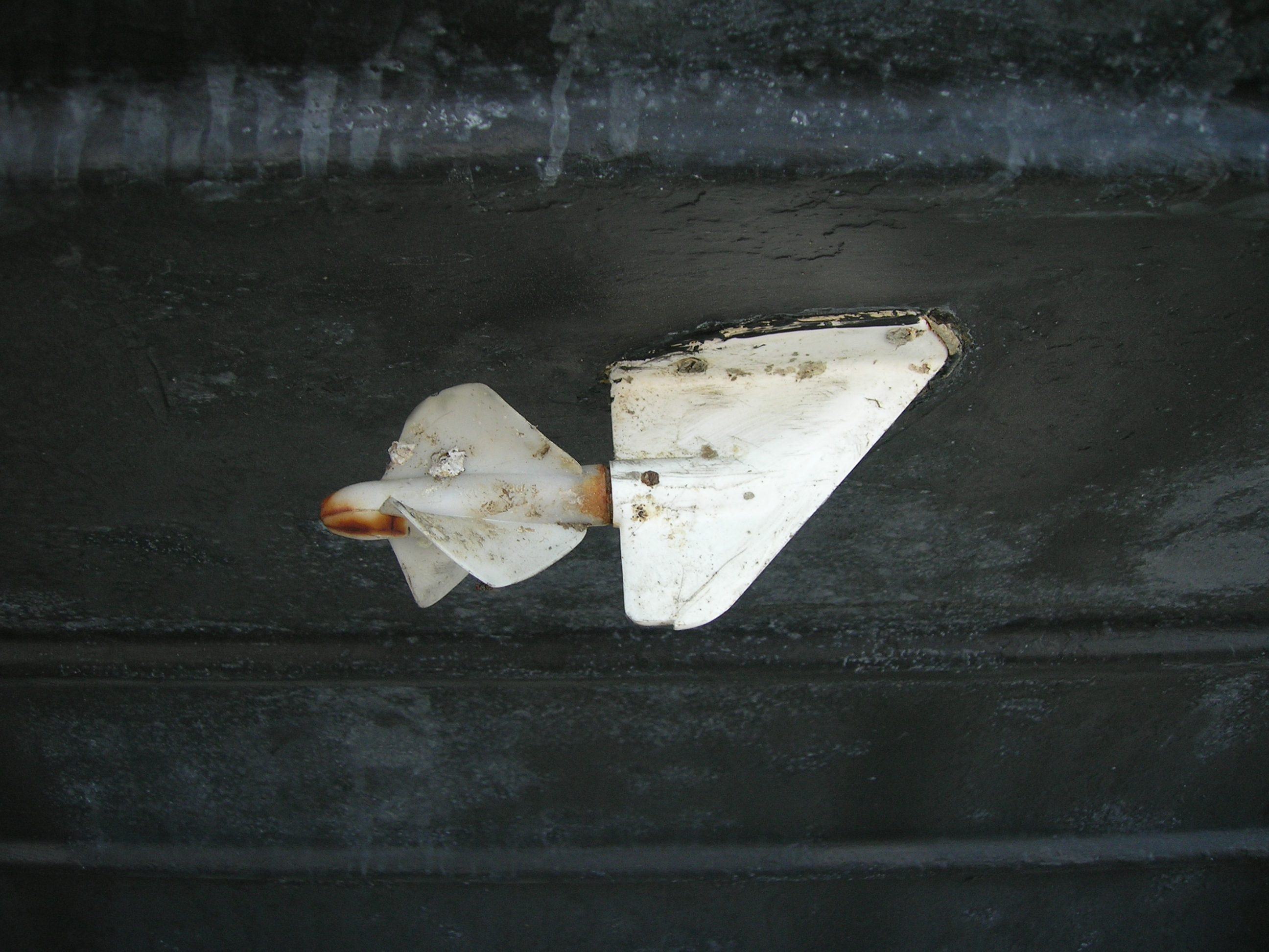 A speedometer under the keel of a small motor boat.